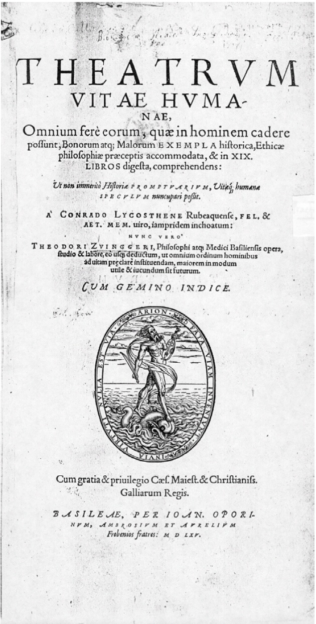 Title page of Theatrum Vitae Humanae